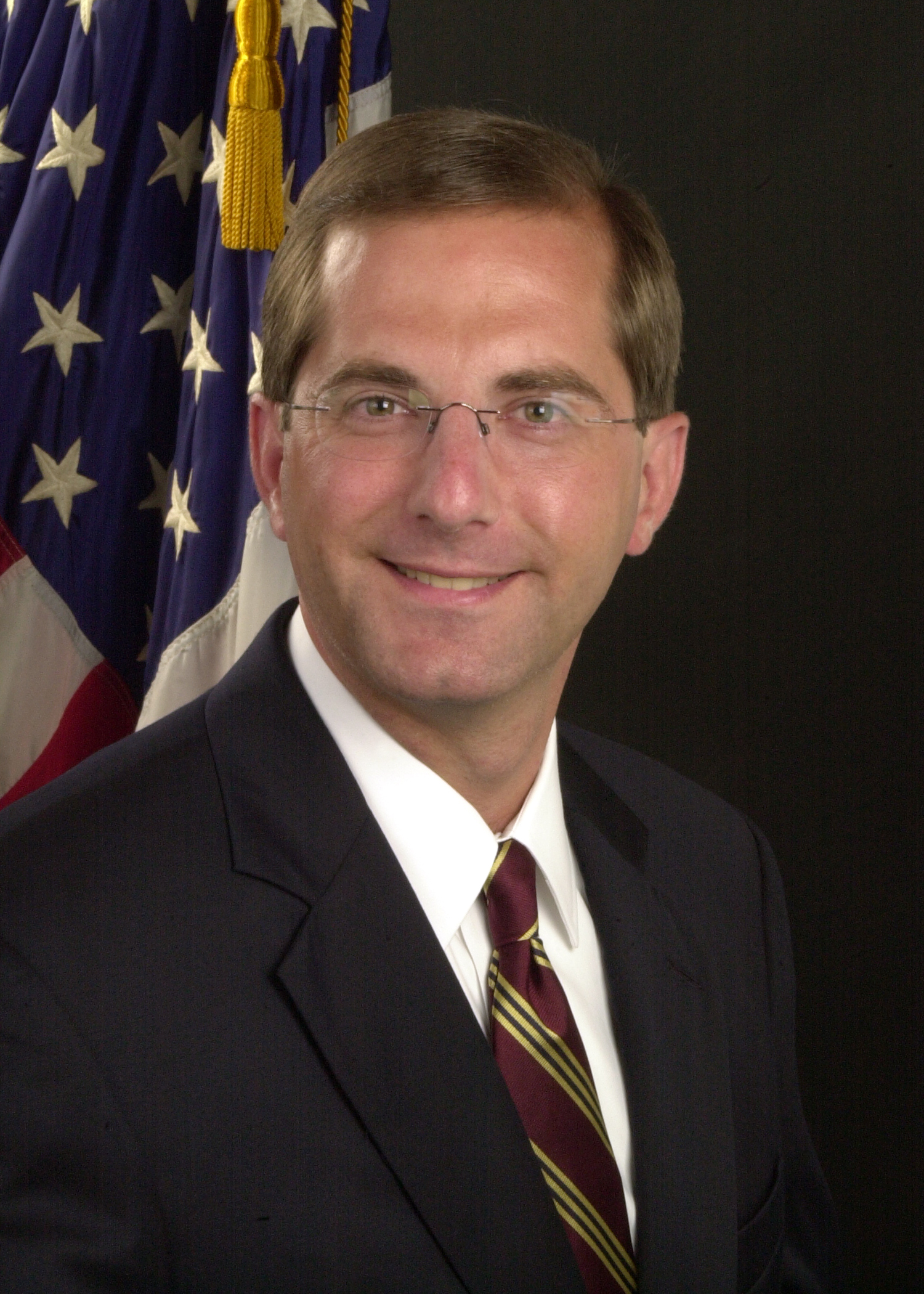 Alex Azar official photo